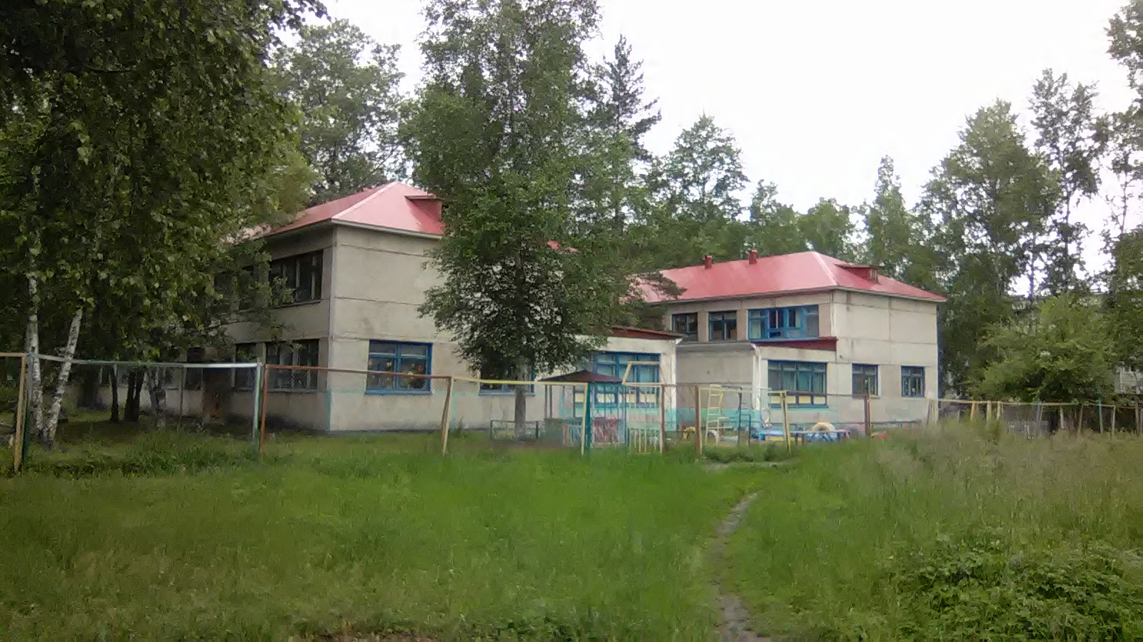 Детский сад